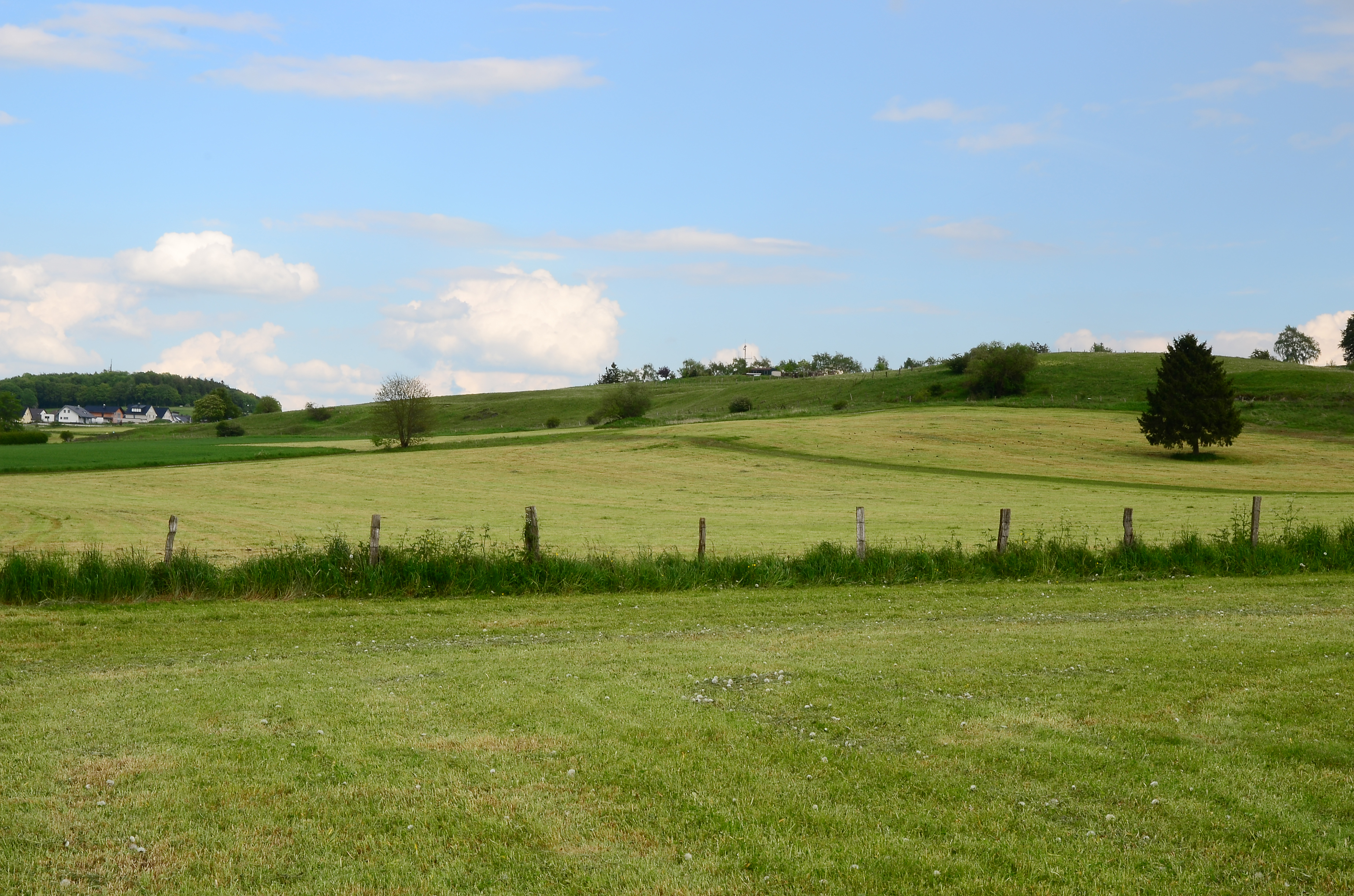 Nature reserve Drei Steine (2) Key number: HSK-531, Brilon, North Rhine-Westphalia, Germany.